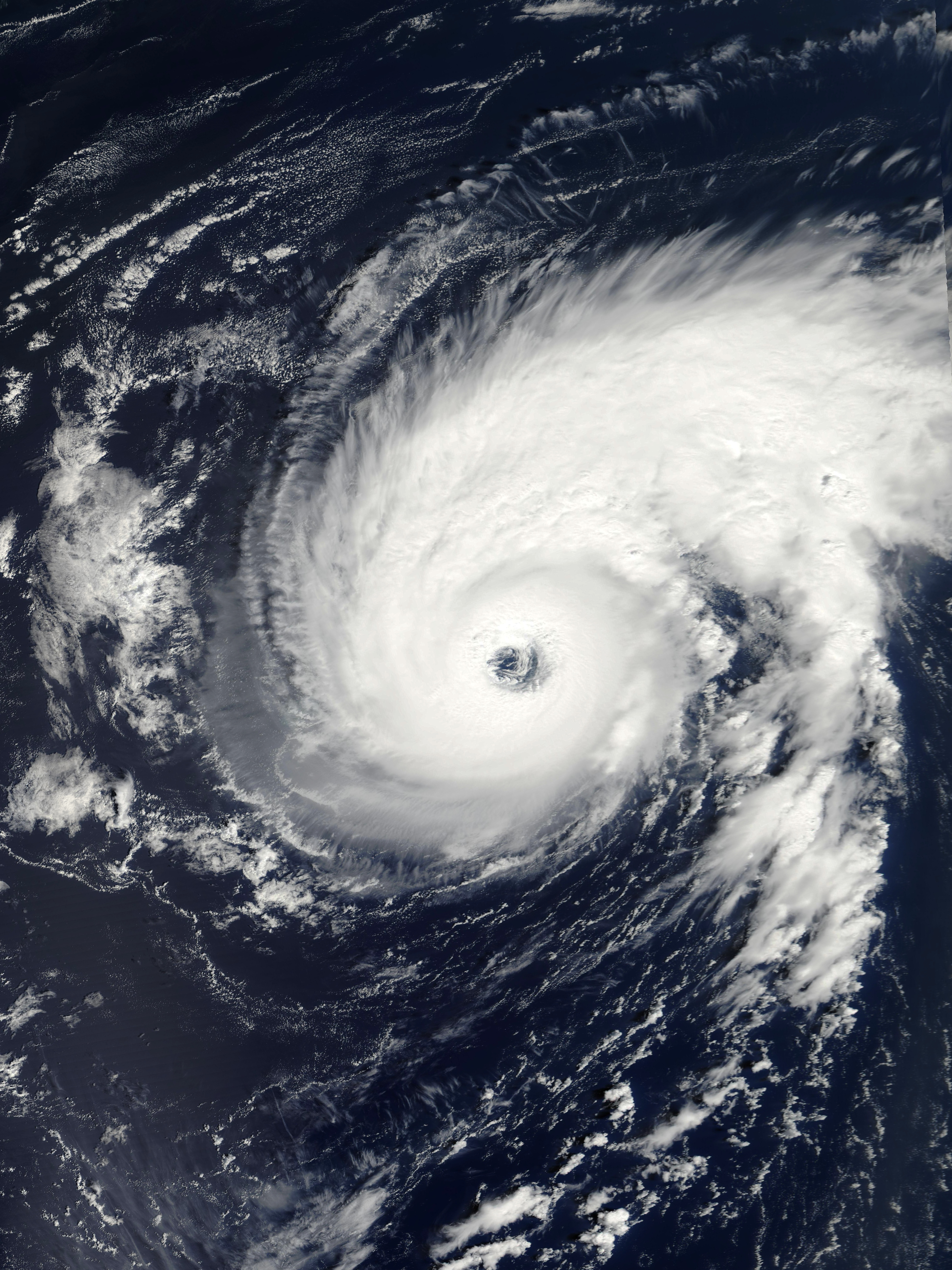 The first Atlantic hurricane of the 2001 season narrowly missed Bermuda yesterday (September 9) as it churned north-northwestward at a rate of 19 km per hour (12 miles per hour). Packing sustained winds of 195 km per hour (120 miles per hour), Hurricane Erin was located just east of Bermuda at the time NASA's Terra satellite acquired this image. The true-color image was produced using data from the Moderate-resolution Imaging Spectroradiometer (MODIS). The U.S. National Hurricane Center predicts that tonight the storm will shift to a more northerly path. The Center says there is still the possibility that Hurricane Erin could impact Canada, somewhere along the coast of Newfoundland, within three to four days. Hurricane Erin was upgraded from a tropical storm to hurricane status on September 8, and was listed as a Category 3 hurricane on September 10 on the Saffir-Simpson scale. The storm's hurricane-force winds extend outward in a 75-km (45-mile) radius from its center, with tropical storm force winds extending to 280 km (175 miles) from center.